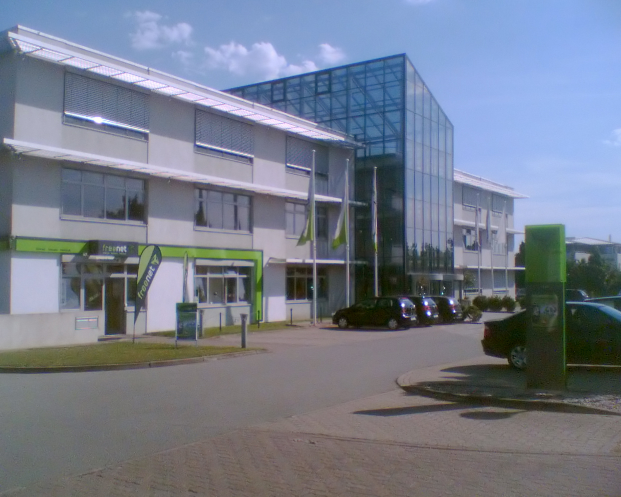 Headquarter of the "Freenet AG" in Büdelsdorf